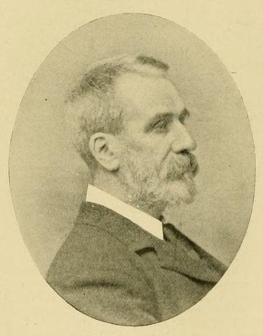 Sir George King, botanist